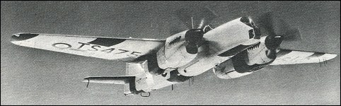 Short Sturgeon TT2